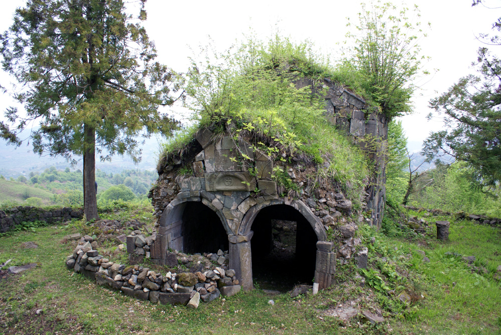 Medieval church in village Gantiadi (Konchkati Community) , Guria